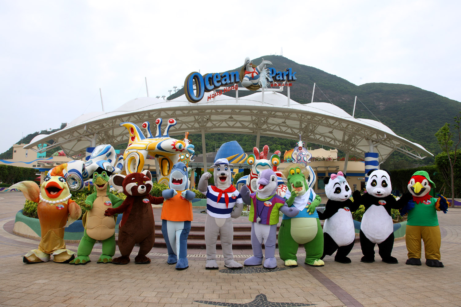 Main Entrance of Ocean Park